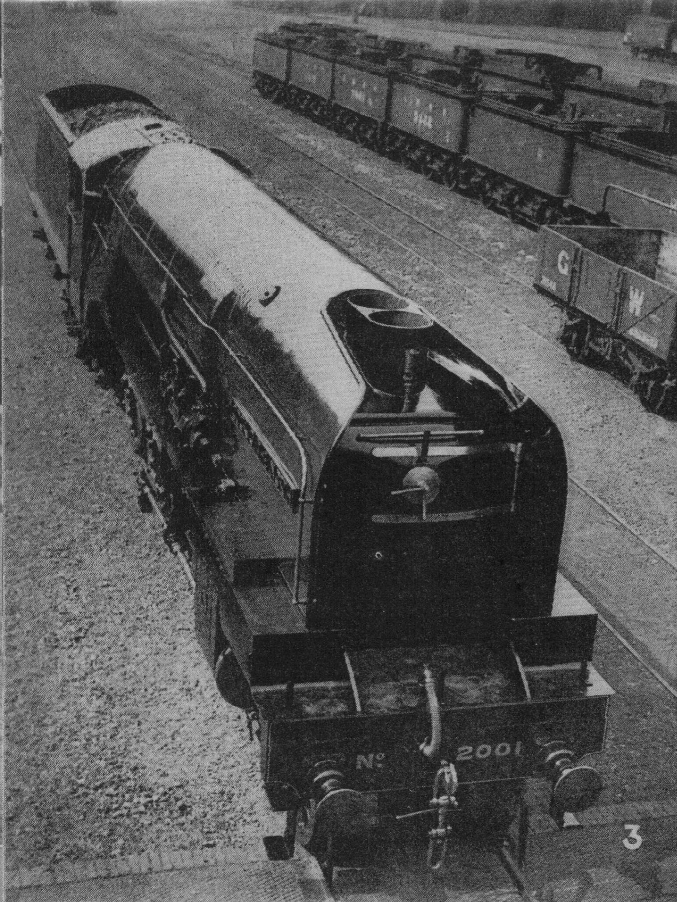 The LNER "Cock O' The North," completed in May 1934 Approximate date of photograph: 1934